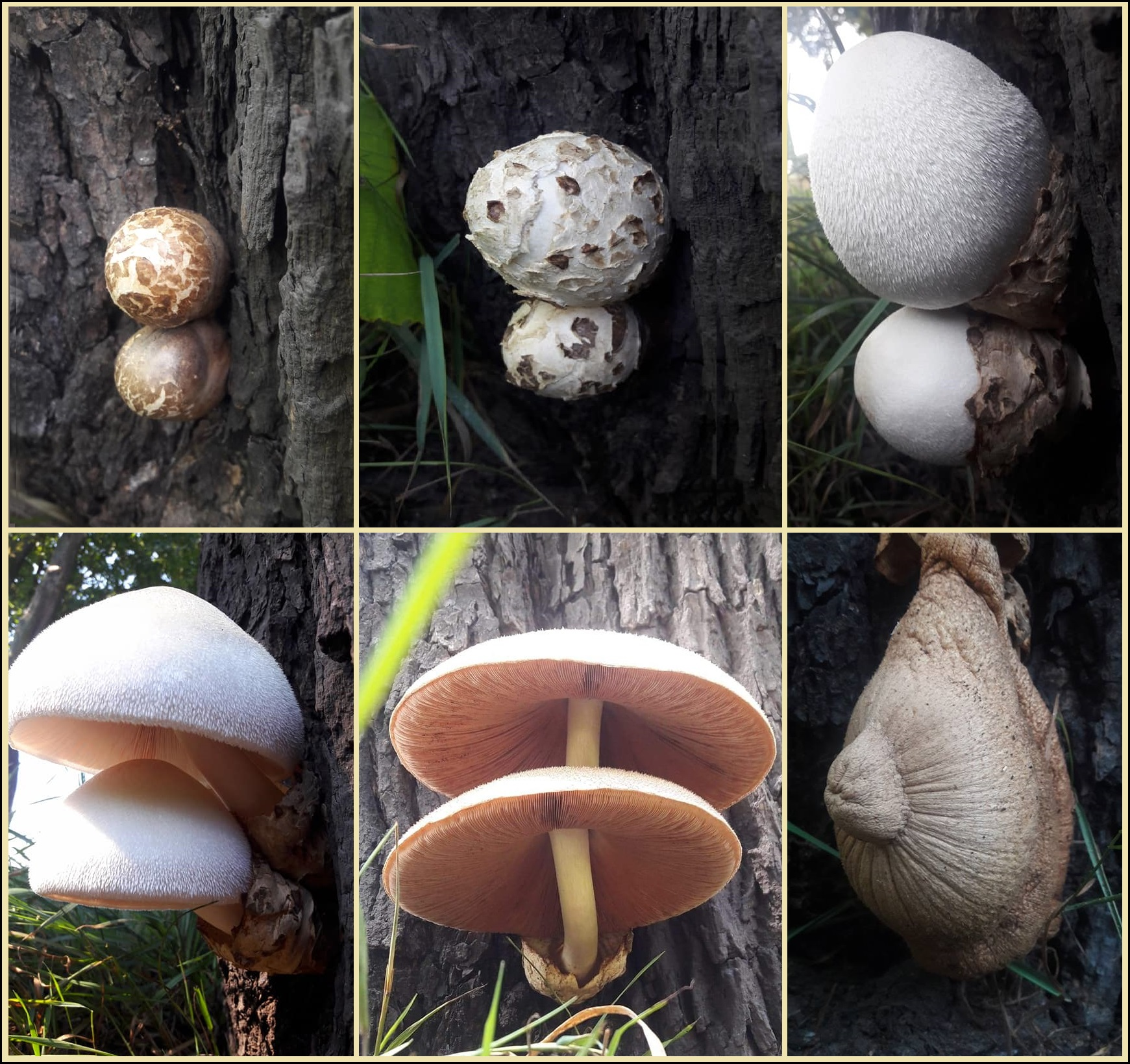 Volvariella bombycina - growth stages.